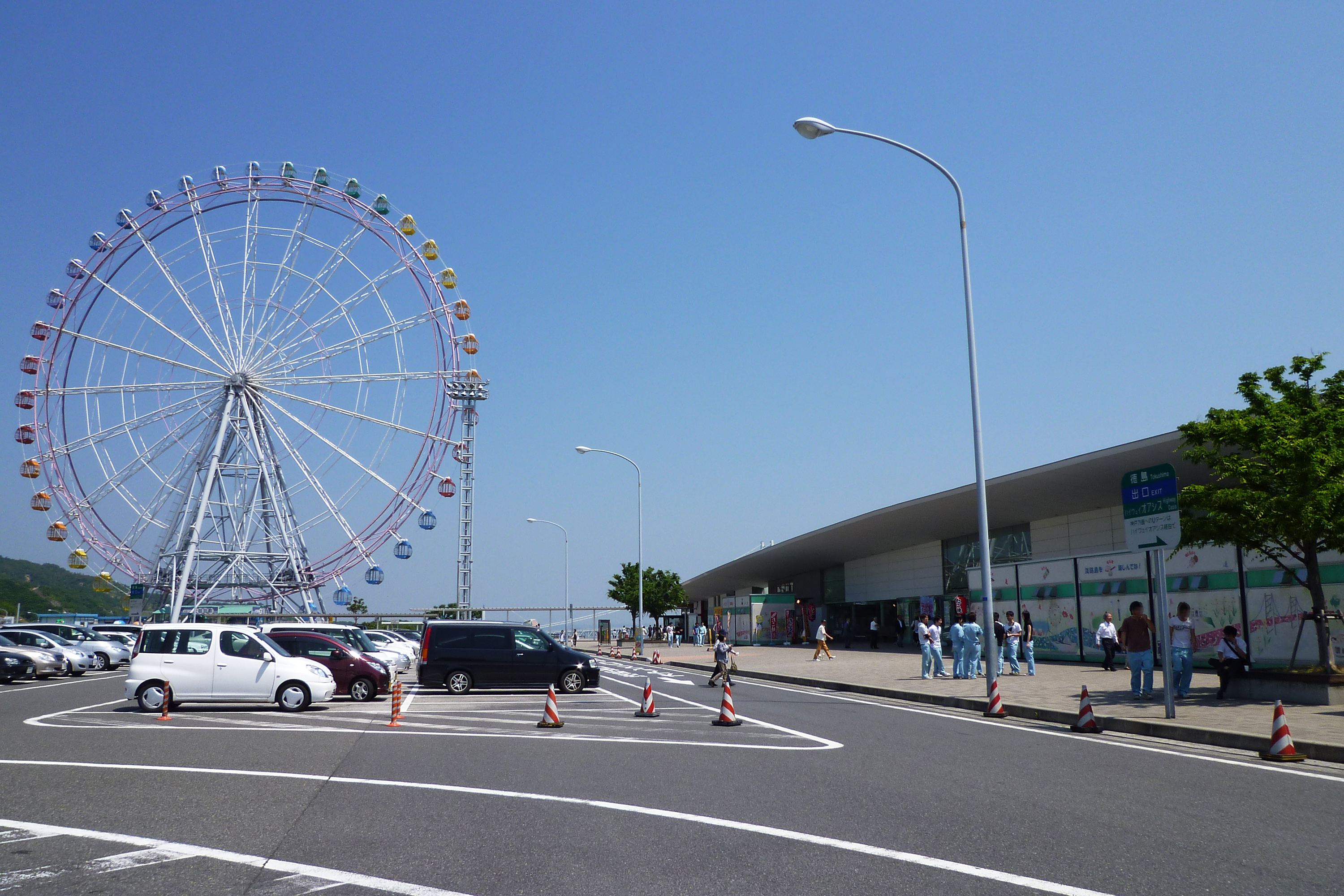 Awaji Service Area, Awaji, Hyogo prefecture, Japan.